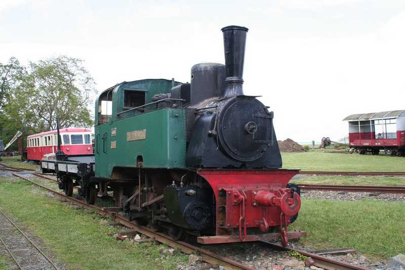 Orenstein & Koppel 0-6-0T locomotive N° 11695 (1928). Preserved at ACFCdN. Previously Compagnie Royale des Asturies "Florida n° 5".